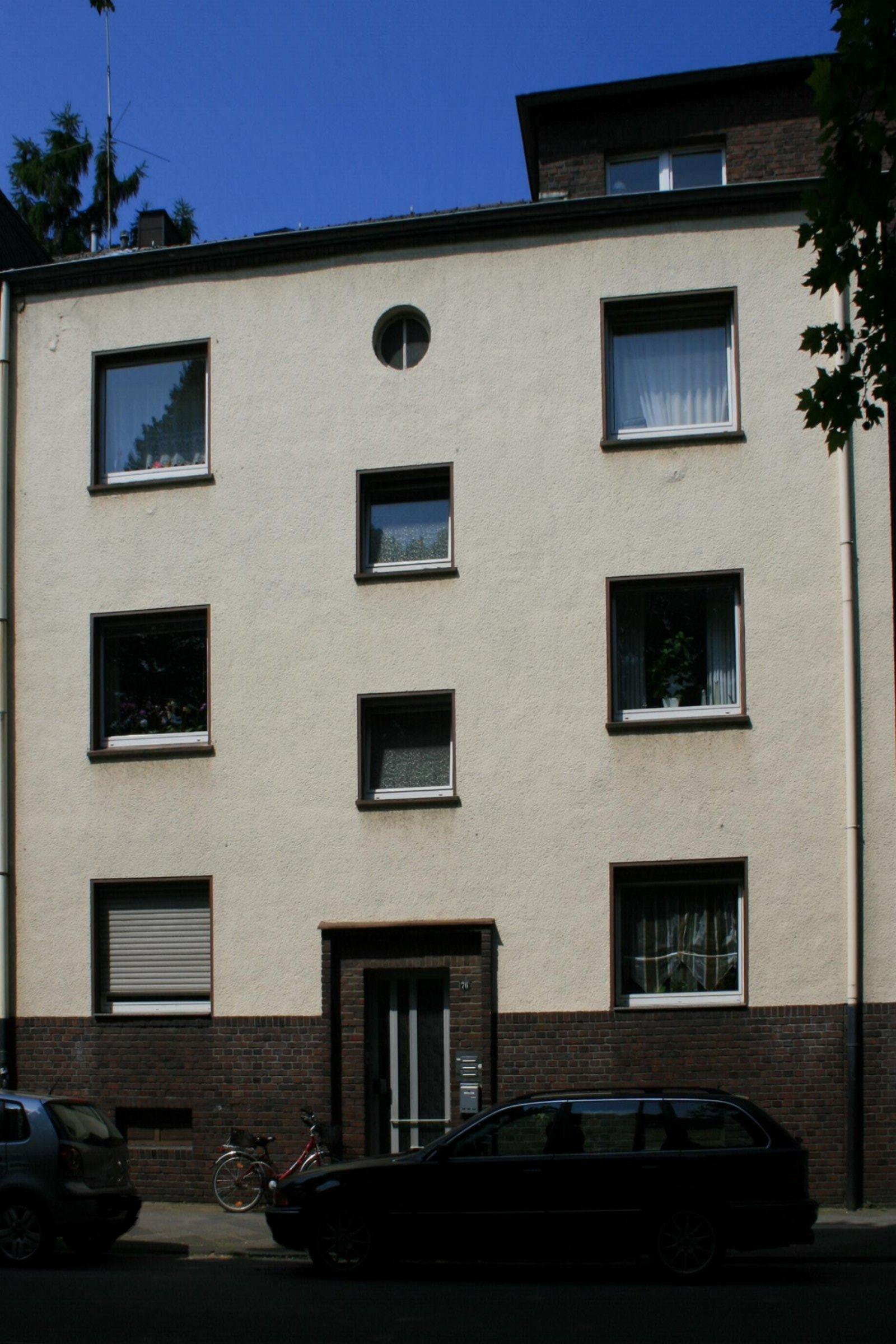 Cultural heritage monument No. R 080 in Mönchengladbach